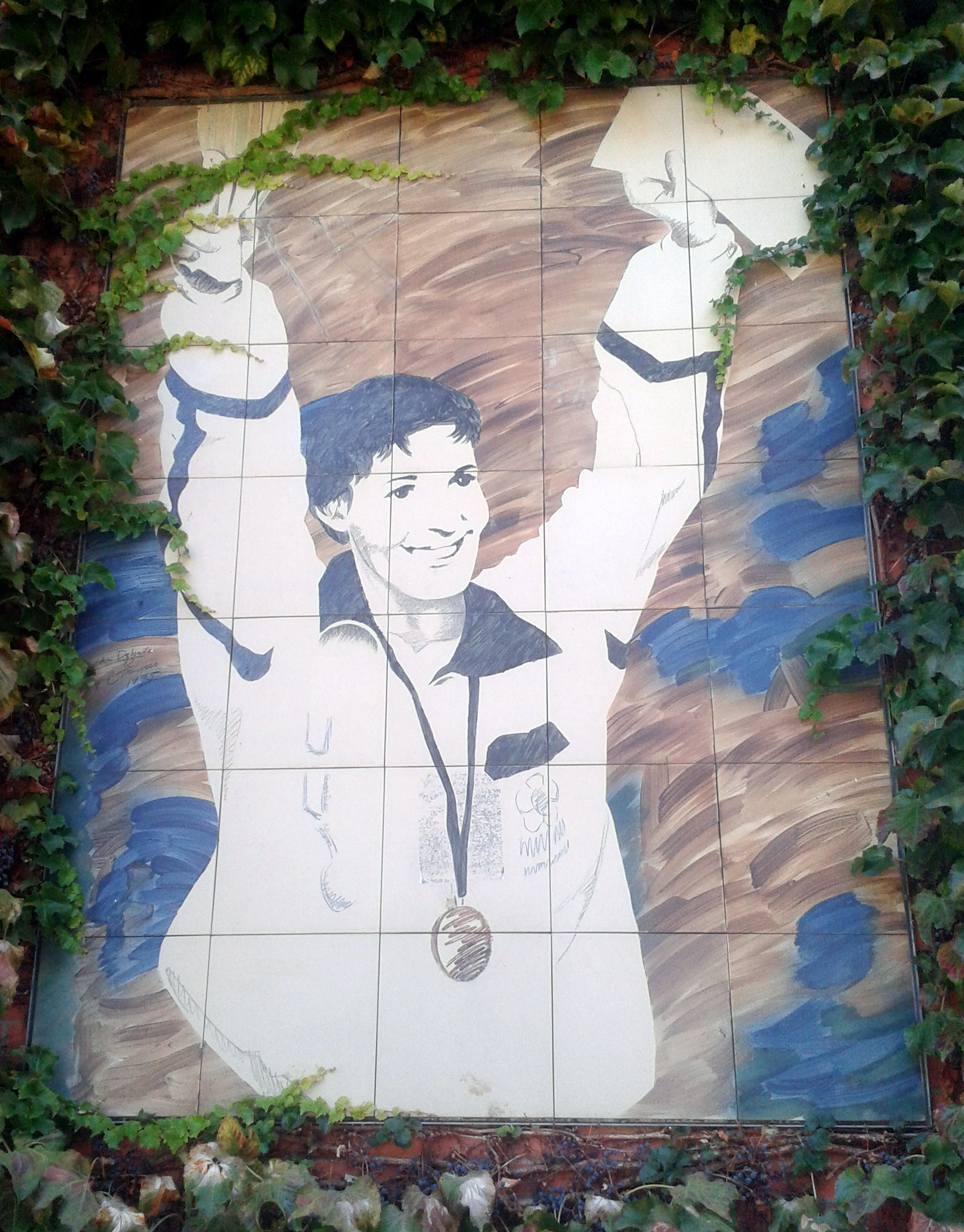 Miriam Blasco, Spanish judoka.